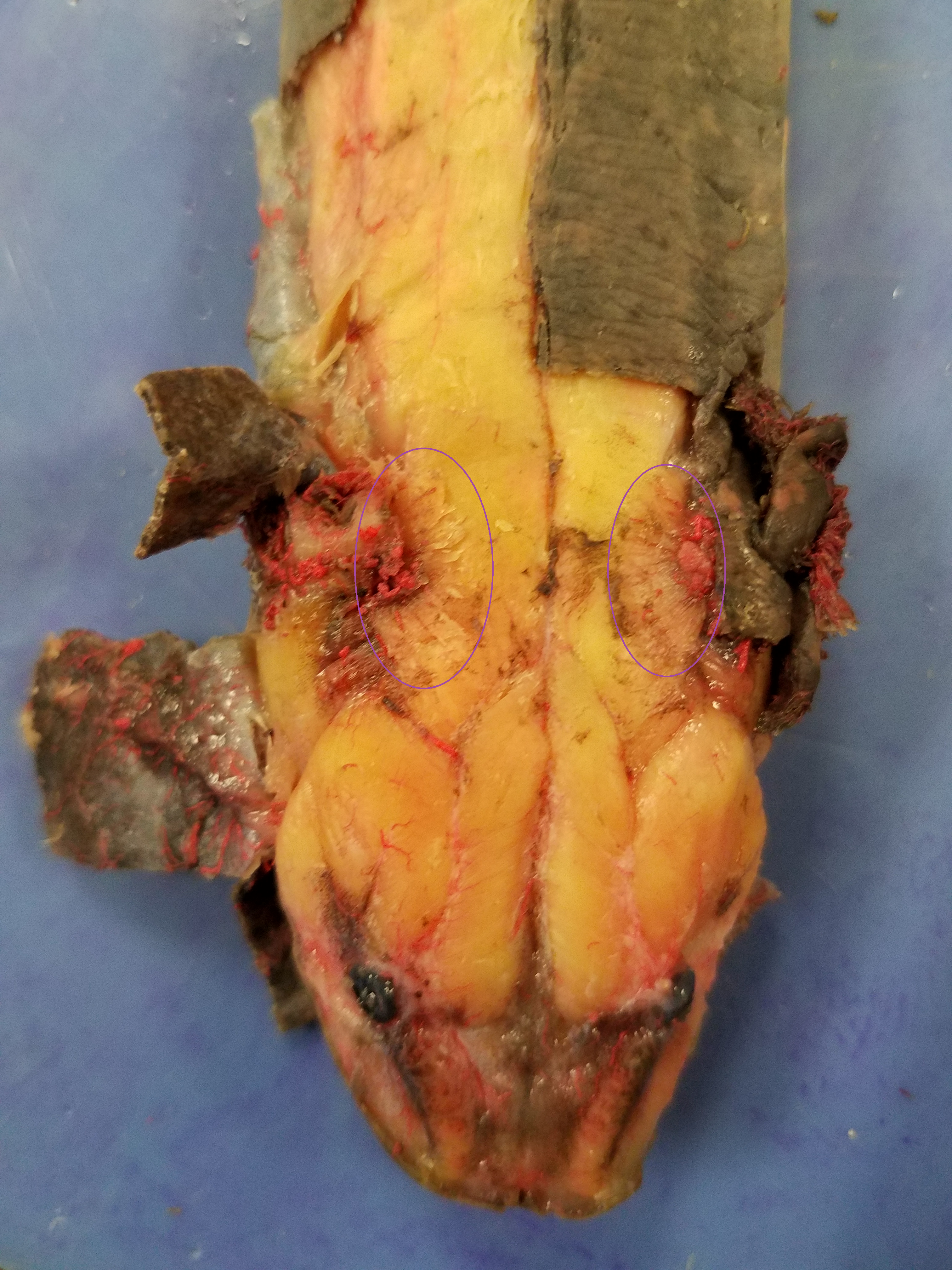 Dissection displaying the levatores arcuum, specified external gill muscles, of a Necturus maculosus specimen.